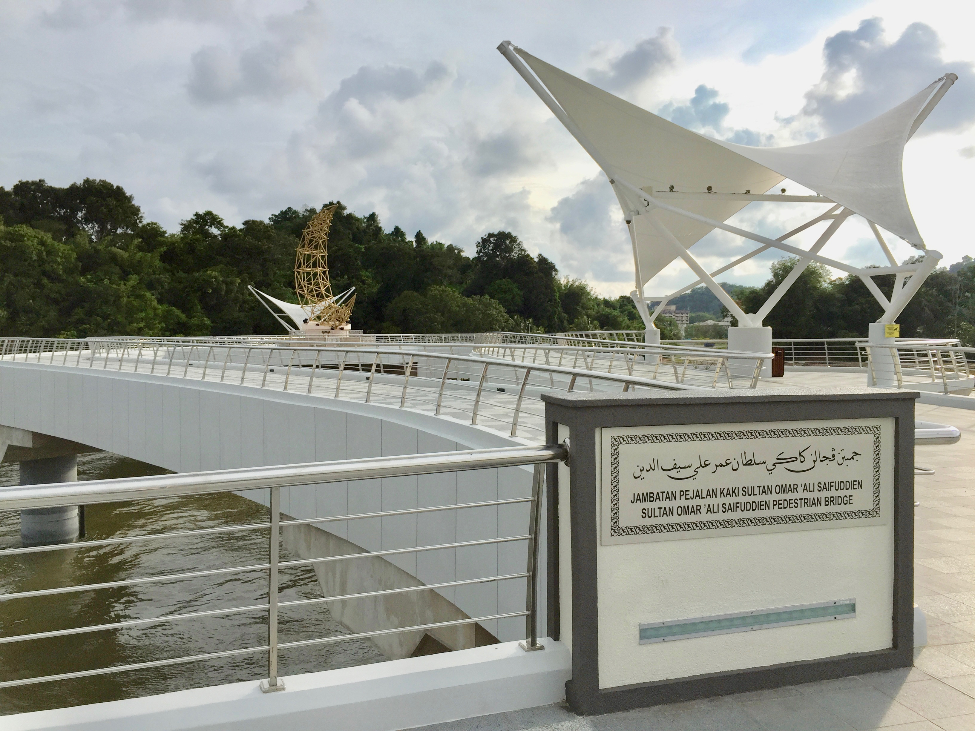 Sultan Omar 'Ali Saifuddien Pedestrian Bridge. Taken on 20 May 2018.